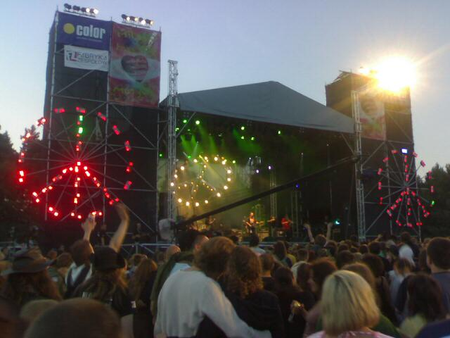 Przystanek Woodstock 2008 - folk scene